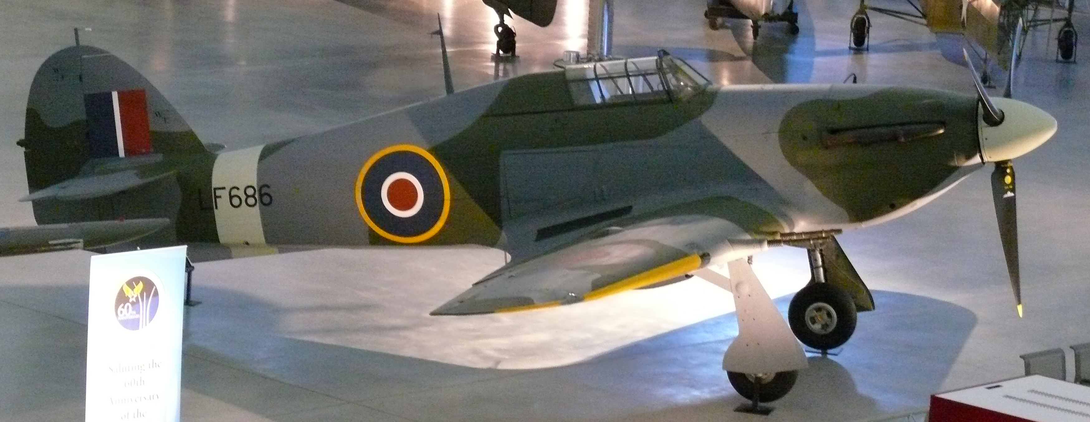 Hawker Hurricane Mk.IIC in the Steven F. Udvar-Hazy Center , Washington DC. The Hawker Hurricane is a British single-seat fighter aircraft that was designed and predominantly built by Hawker Aircraft Ltd. Together with the Spitfire, the Hurricane was significant in enabling the Royal Air Force (RAF) to win the Battle of Britain of 1940, accounting for the majority of the RAF's air victories.